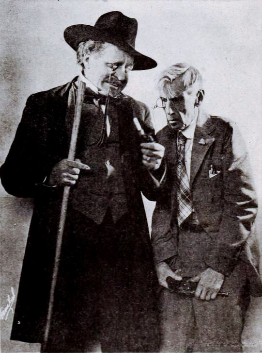 Still from the American drama film White Youth (1920) with Alfred Hollingsworth (1869 – 1926) and Thomas Jefferson, on page 73 of the January 8, 1920 Exhibitors Herald.